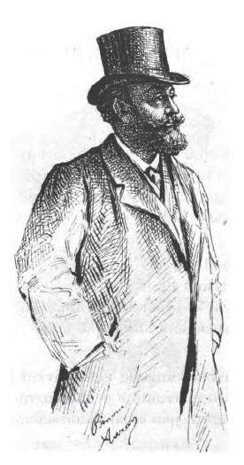 Portrait of Pau Marieton